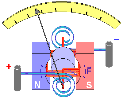 Diagram of D'Arsonval/Weston type galvanometer.